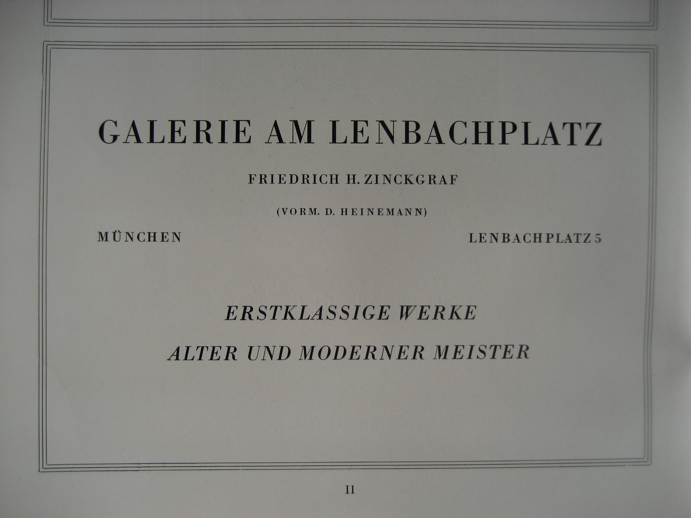 Ad from August 1940 in the german art-magazine Pantheon from the of the new owner of the former Munich Gallery Heinemann, which he achieved through aryanisation in 1938/1939. The name of the aryaniseur was Friedrich Heinrich Zinckgraf an the new name of the gallery, Galerie am Lenbachplatz